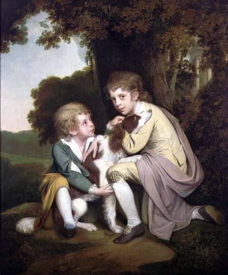 Copy in Pickford House in Derby